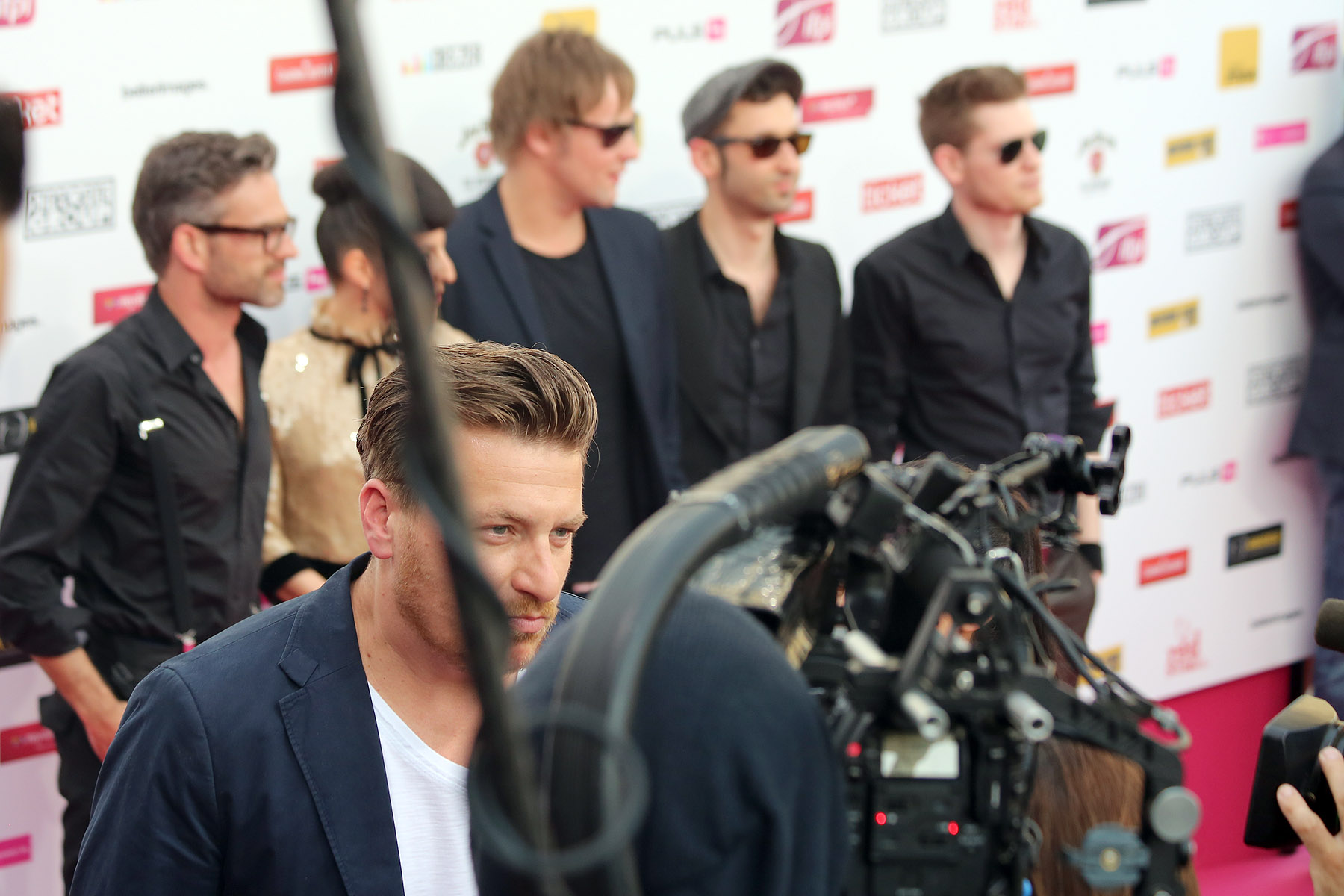 Parov Stelar and band at the Amadeus Austrian Music Award at Volkstheater in Vienna